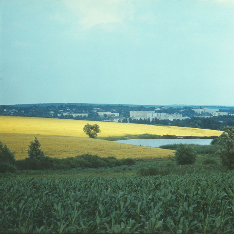 The surroundings Durlesti (1980).